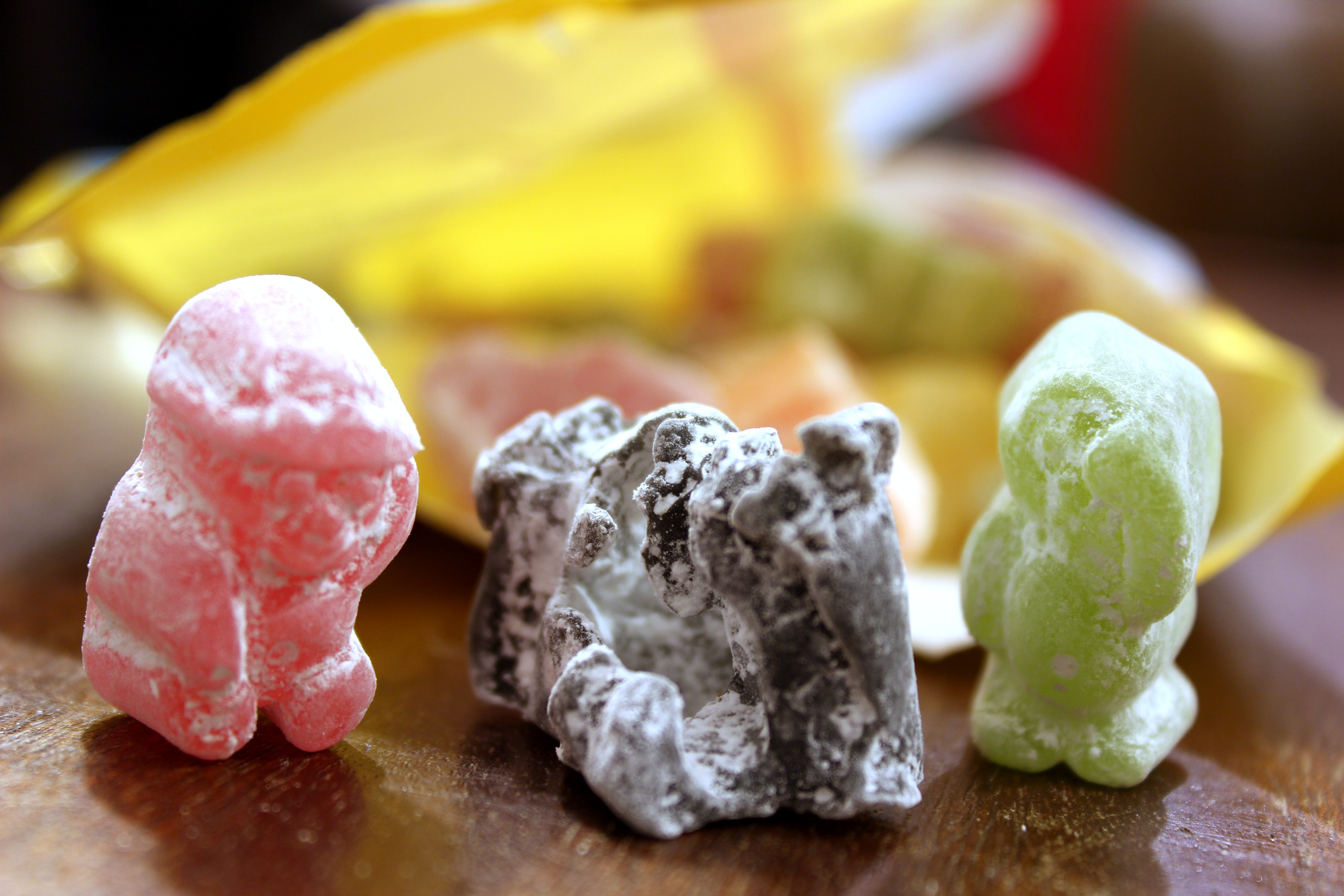 A hollow jelly baby gelatine candy (black, center) with two normal jelly babies next to it for comparison. Out of focus bag of jelly babies in the background.